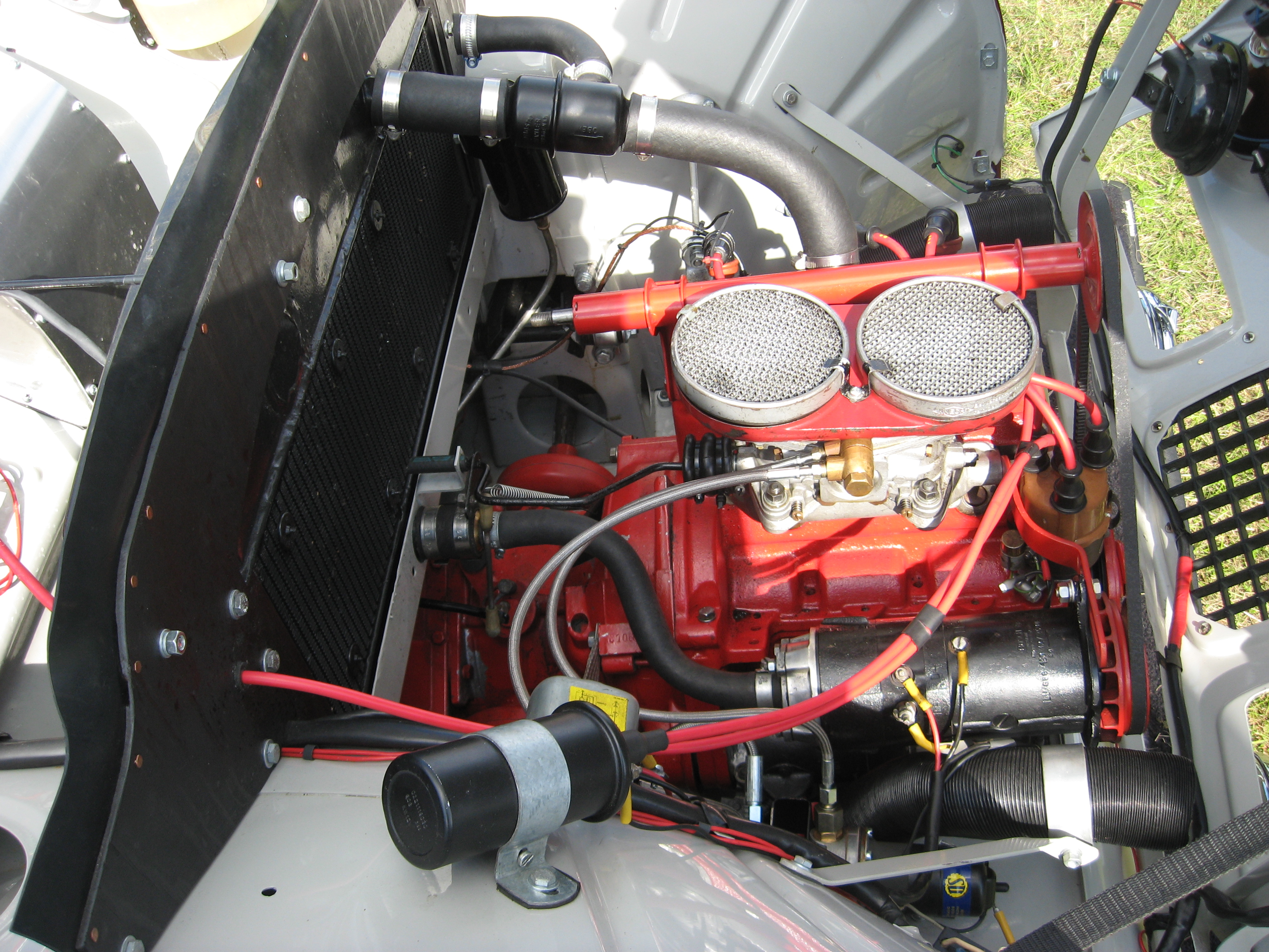 The engine of the LeMans winning SAAB 93.